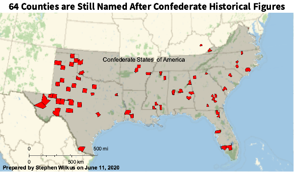 Counties named for Notorious Confederate Personages, as listed in the table in the associated article: "List of U.S. counties named after prominent Confederate historical figures". This work was entirely created by self (Stephen Wilkus) and is made available under the Creative Commons agreement.